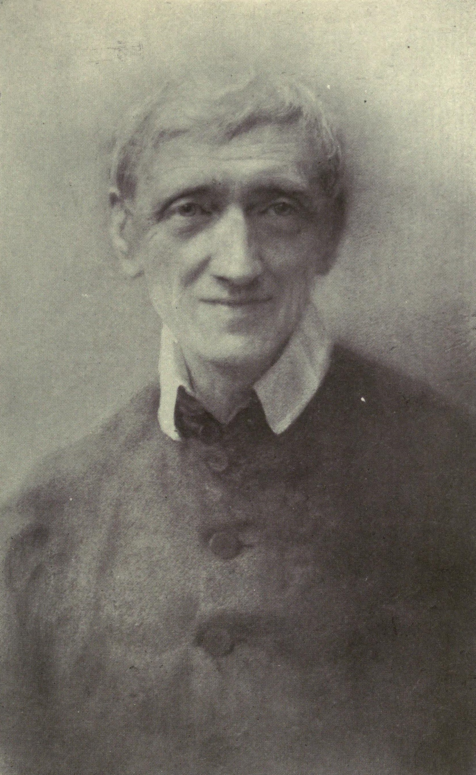 Painting of Cardinal Newman, by Jane Fortescue Seymour, Lady Coleridge